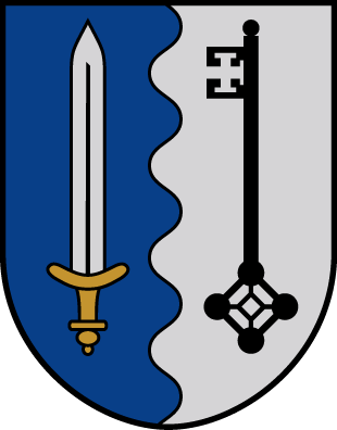 Coat of arms of Ludza Municipality, Latvia